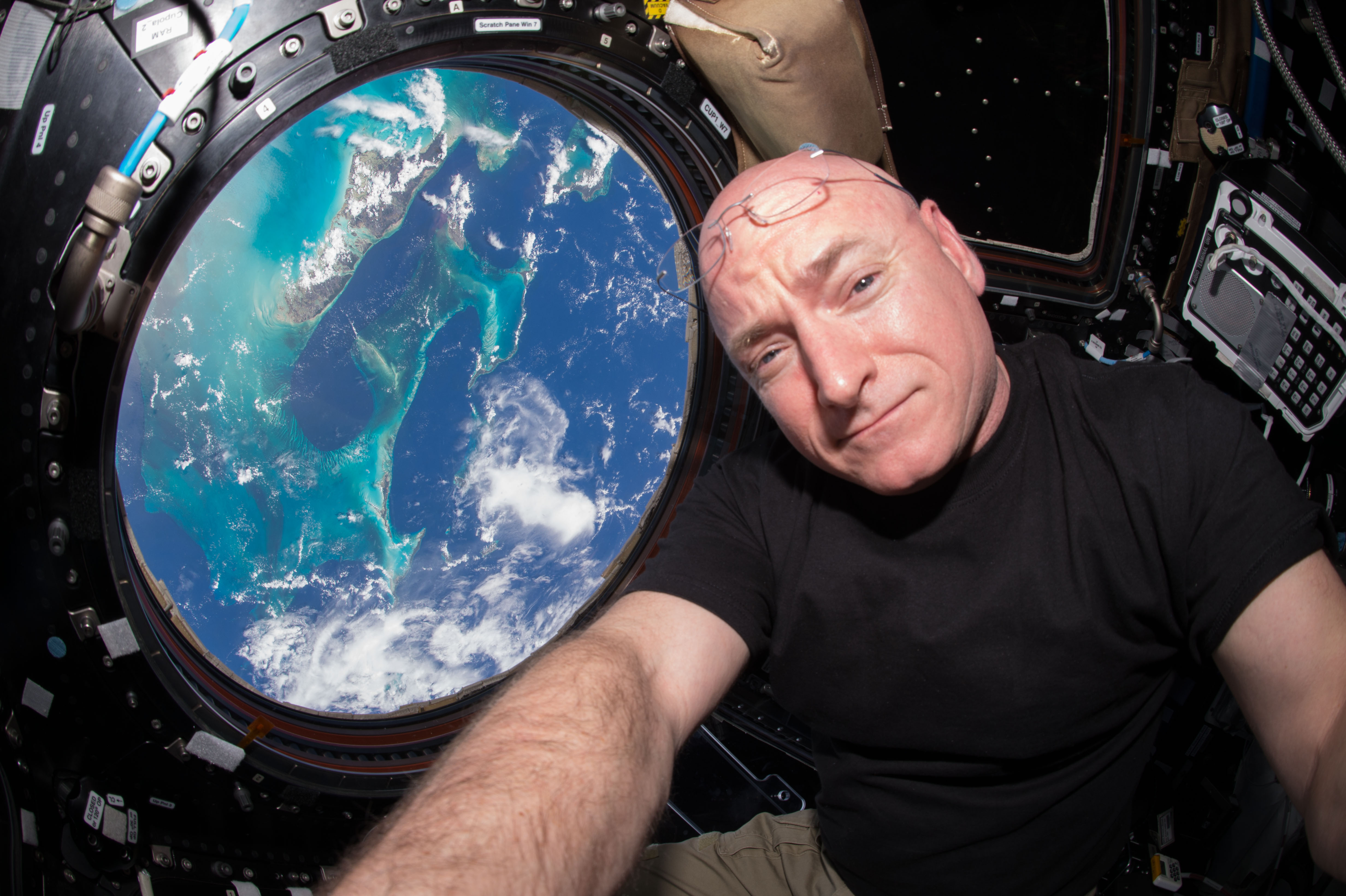 Expedition 44 flight engineer and NASA astronaut Scott Kelly seen inside the Cupola, a special module which provides a 360-degree viewing of the Earth and the International Space Station. Kelly is one of two crew members spending an entire year in space.